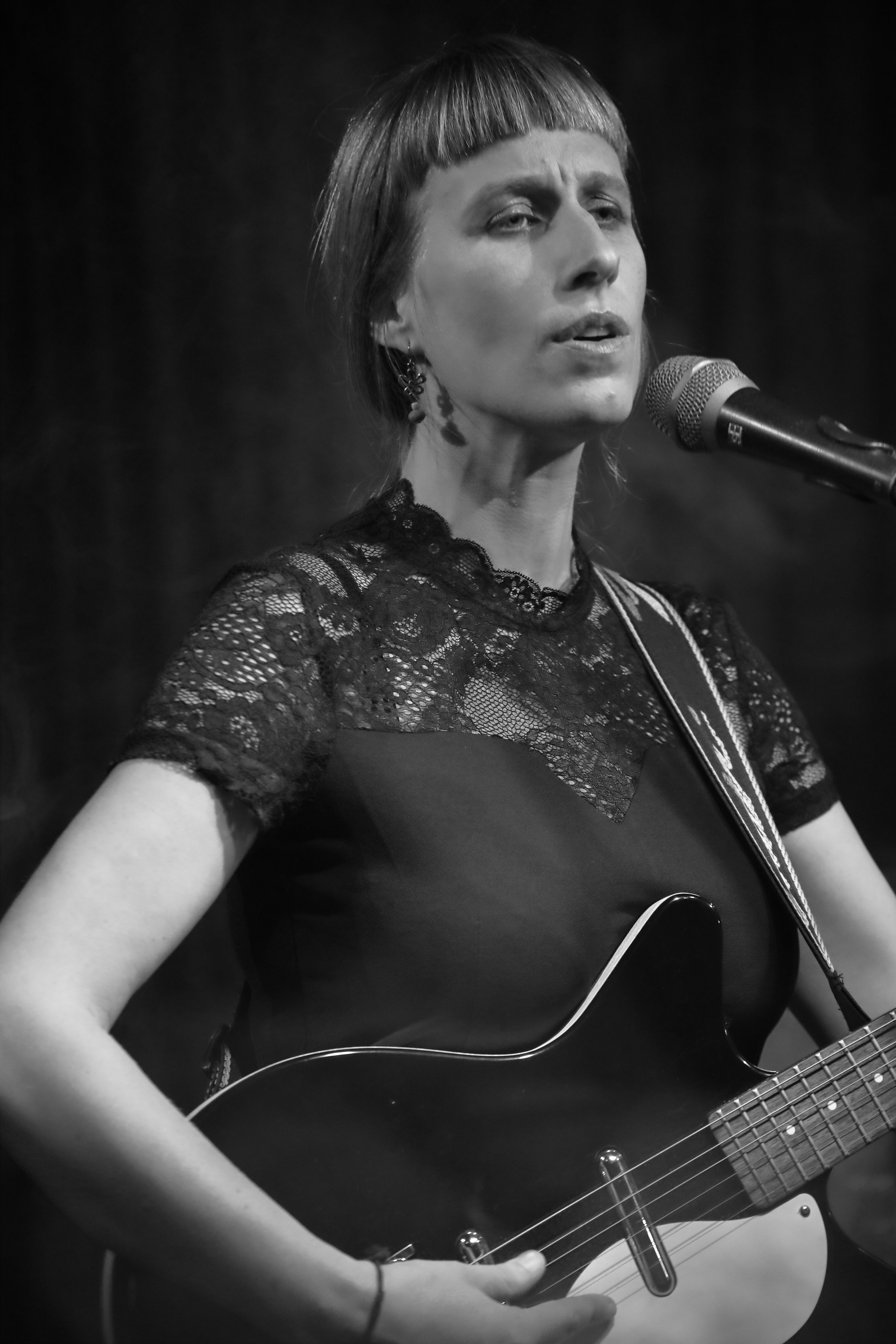 INEZ is the band of singer-songwriter Inez Brodbeck from Switzerland. Here it´s a concert at Club W71 in Weikersheim, 2019. Second guitar player is Gabriel Sullivan from Xixa.